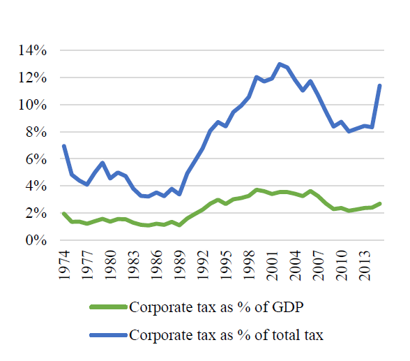 Irish Corporation Tax as % of Irish GDP and as % of Total Irish Tax (1974 to 2016); Sourced from OECD Irish Tax Statistics